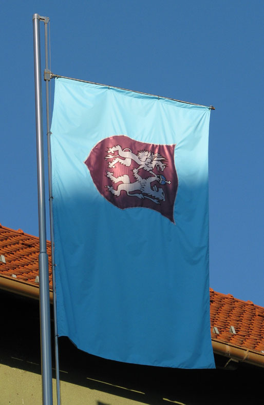 Flag of the Town of Zabok, Krapina-Zagorje County, Croatia